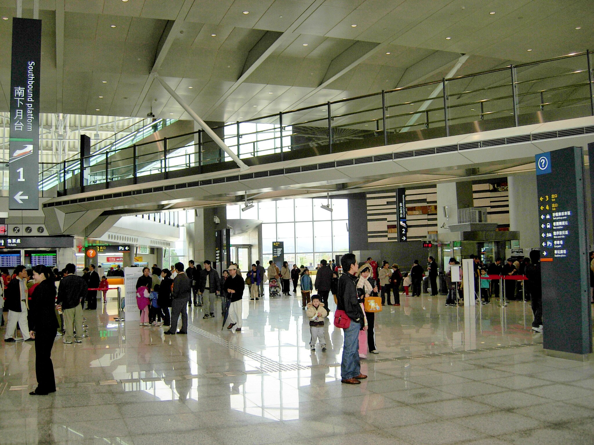 HSR Hsinchu Station 1F Hall.